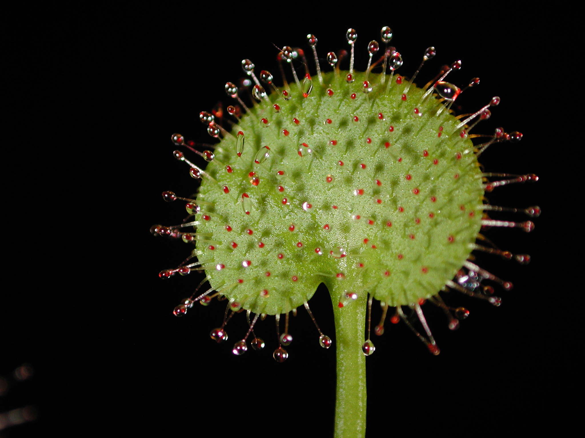 leaf of Drosera prolifera growing in culture